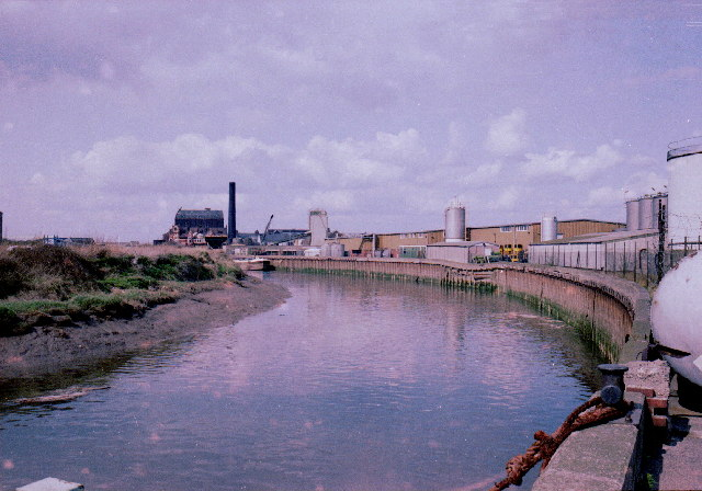 On the bank of the River Hull. Taken at MR: TA104312 looking NNW from the east bank of the River Hull at the back of what was Croda Isis Oils. Much of this scene has now changed in the last 22 years, with a big B&Q store in the background now.